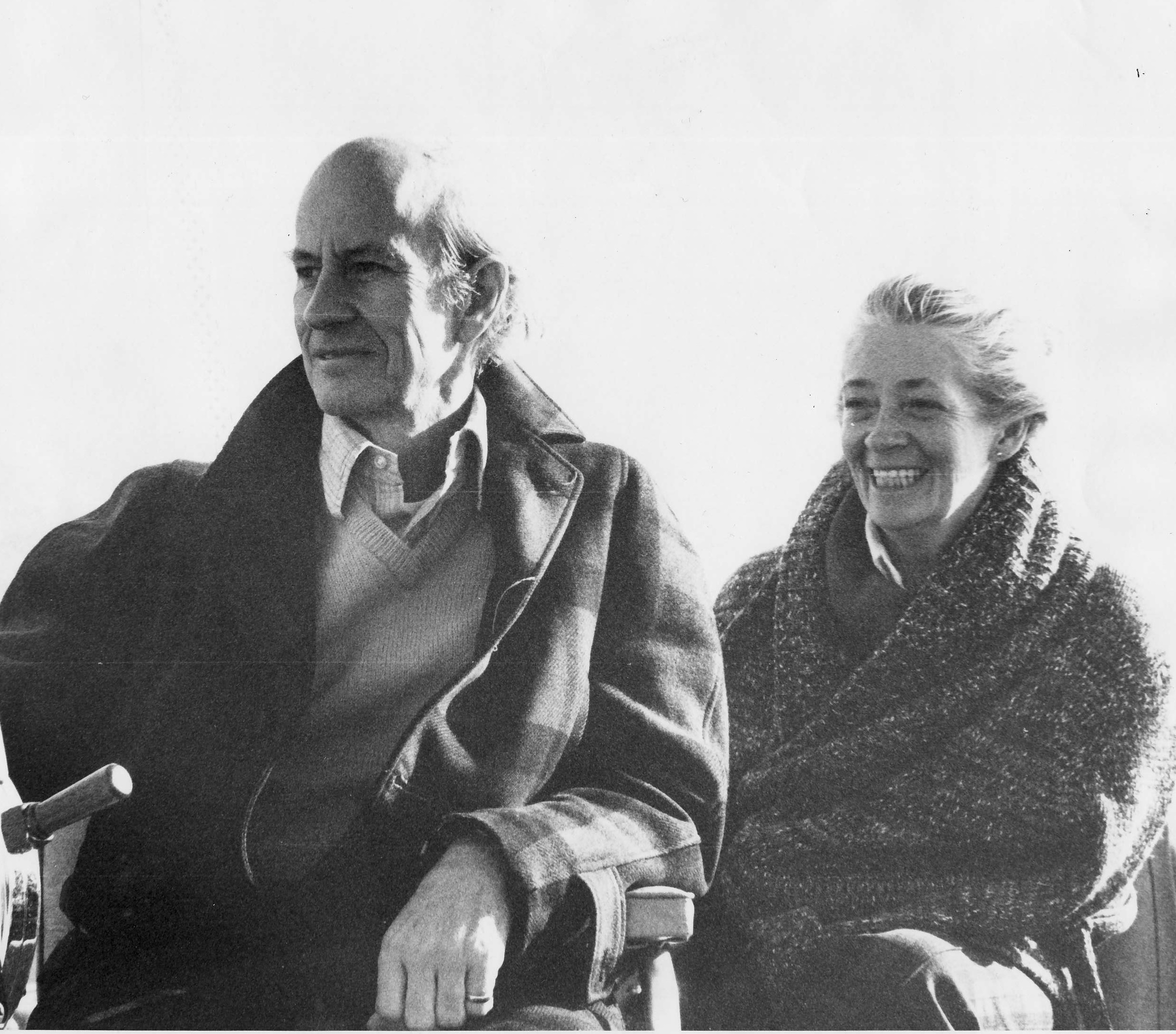 Taken by Earl Flick at Raystown Dam in the 1970s.